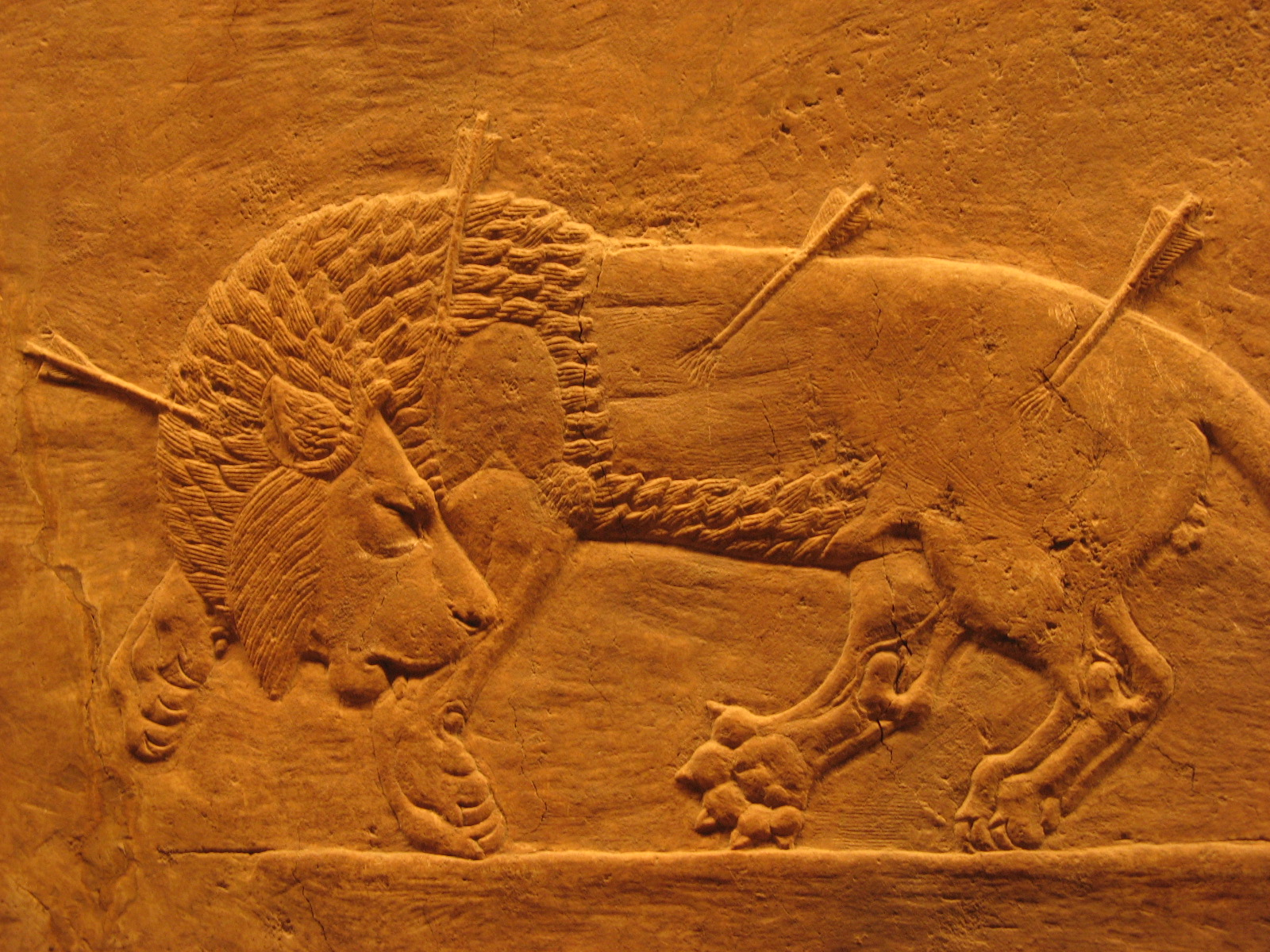 Assyrian royal lion hunt ; North Palace of Nineveh (room C, panel 25-28) ; 645–635 BC.